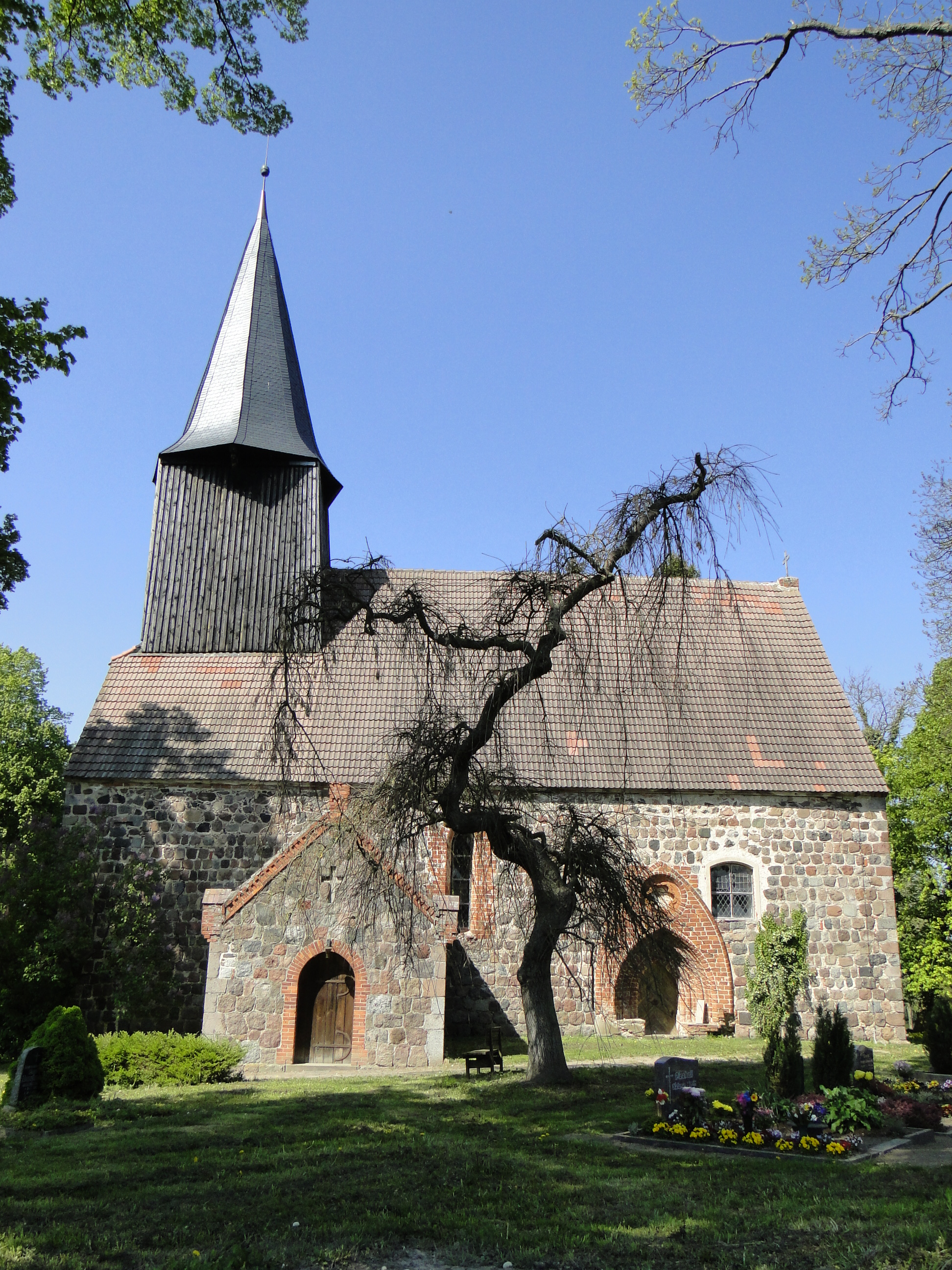 Church in Rattey, district Mecklenburg-Strelitz, Mecklenburg-Vorpommern, Germany